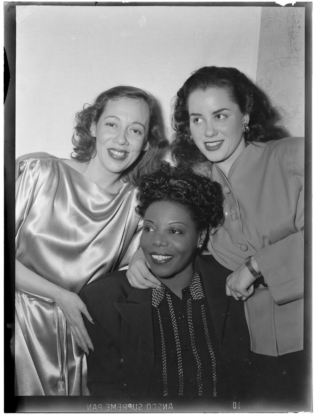 Gottlieb, William P., 1917-, photographer. [Portrait of Imogene Coca, Mary Lou Williams, and Ann Hathaway, between 1938 and 1948] 1 negative : b&w ; 3 1/4 x 4 1/4 in. Notes: Gottlieb Collection Assignment No. 340 Purchase William P. Gottlieb Forms part of: William P. Gottlieb Collection (Library of Congress). Subjects: Coca, Imogene Williams, Mary Lou, 1910- Hathaway, Ann Women jazz musicians--1930-1950. Jazz singers--1930-1950. Women comedians--1930-1950. Format: Portrait photographs--1930-1950. Group portraits--1930-1950. Film negatives--1930-1950. Rights Info: Mr. Gottlieb has dedicated these works to the public domain, but rights of privacy and publicity may apply. Repository: (negative) Library of Congress, Prints & Photographs Division, Washington D.C. 20540 USA, Part Of: William P. Gottlieb Collection (DLC) 99-401005 General information about the Gottlieb Collection is available at Persistent URL: Call Number: LC-GLB23- 1595 This work is from the William P. Gottlieb collection at the Library of Congress. Rights and restrictions. In accordance with the wishes of William Gottlieb, the photographs in this collection entered into the public domain on February 16, 2010.